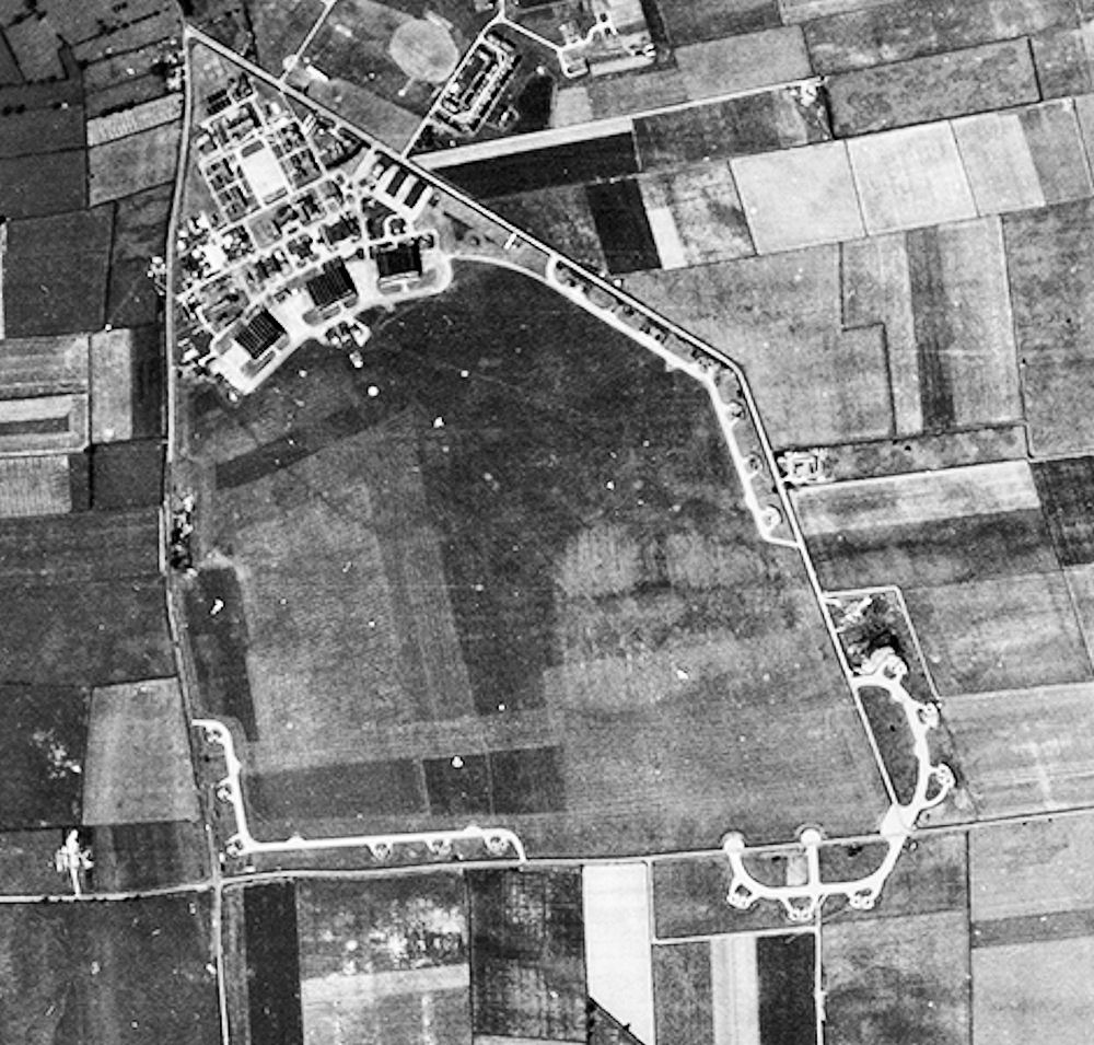 Aerial photograph of RAF Kirton in Lindsey showing, the technical site with three C-Type hangars to the top (north), 27 July 1948. Photograph taken by No. 540 Squadron, sortie number RAF/540/63. English Heritage (RAF Photography).